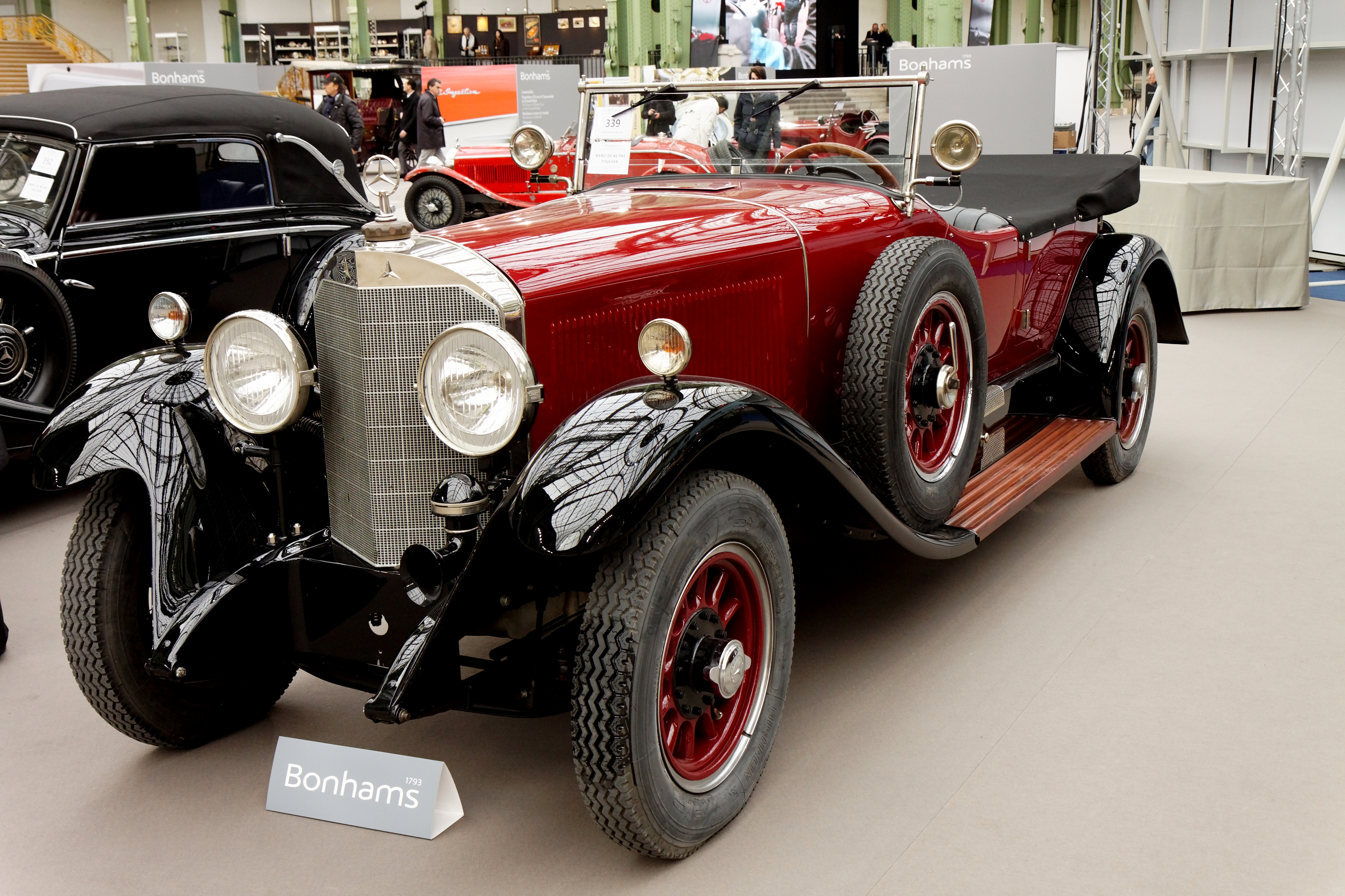 The making of this document was supported by Wikimédia France. (Submit your project!)